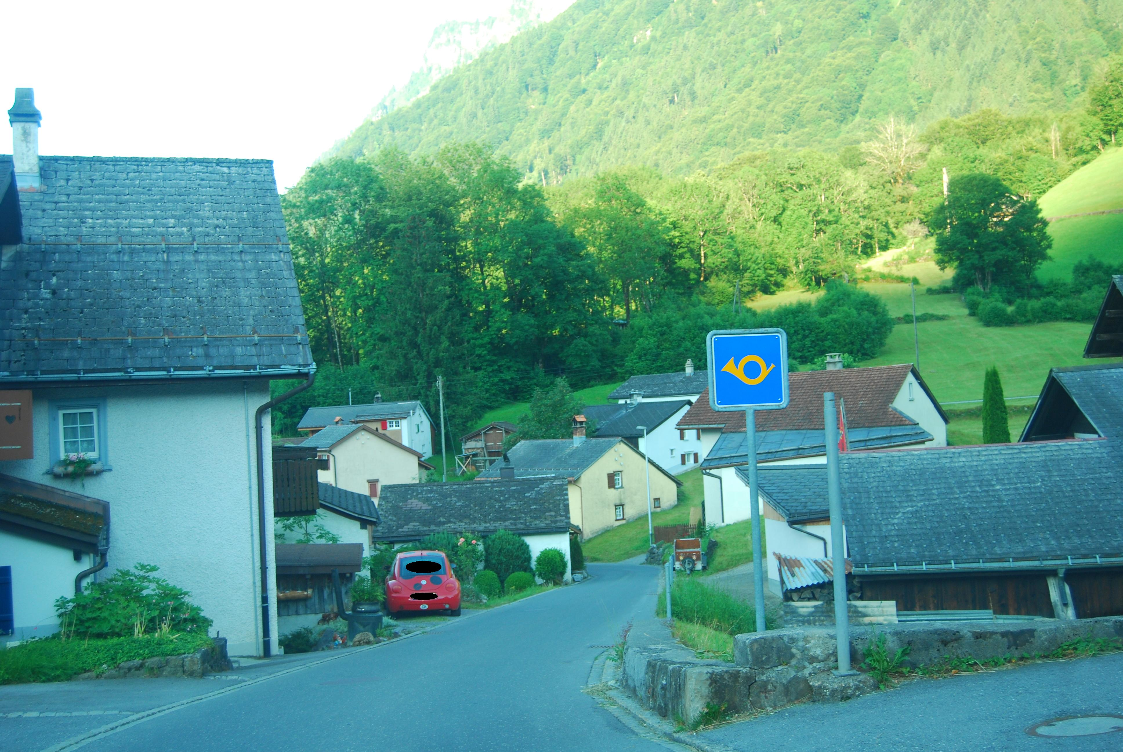 Schwändi, canton of Glarus, Switzerland